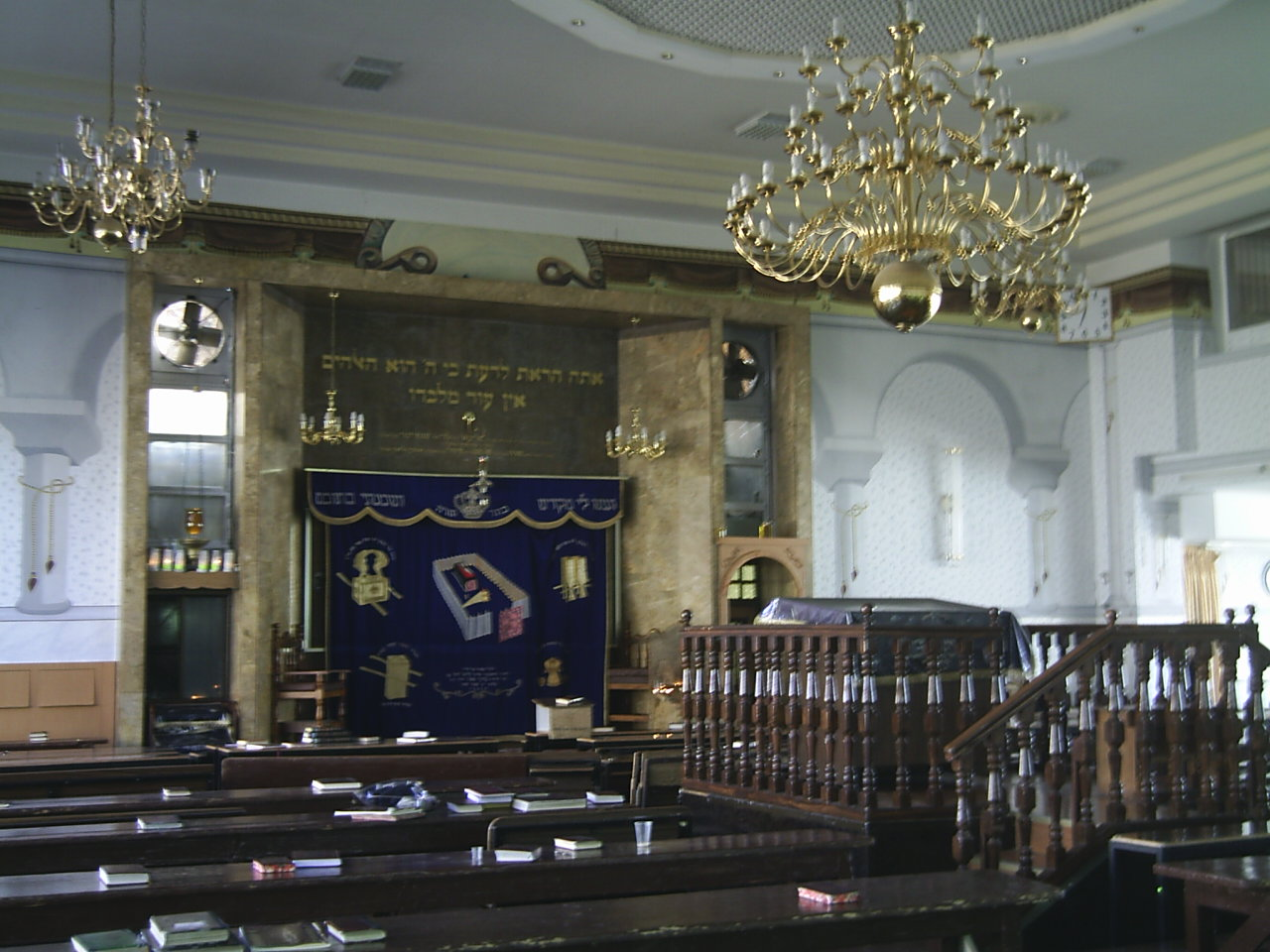 Beis Midrash HaGodol of chassidei Toldos Aharon te Meah Shearim, Jerusalem. Self-made